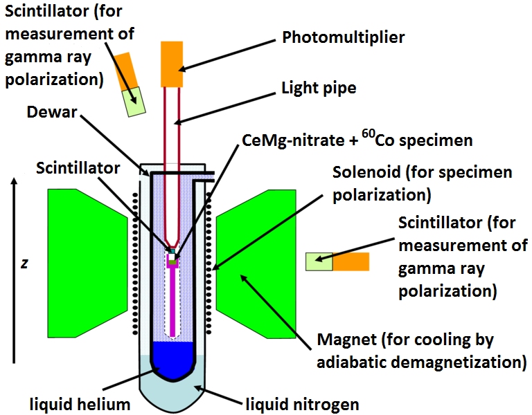 Schematic illustration of the Wu experiment demonstrating parity violation.